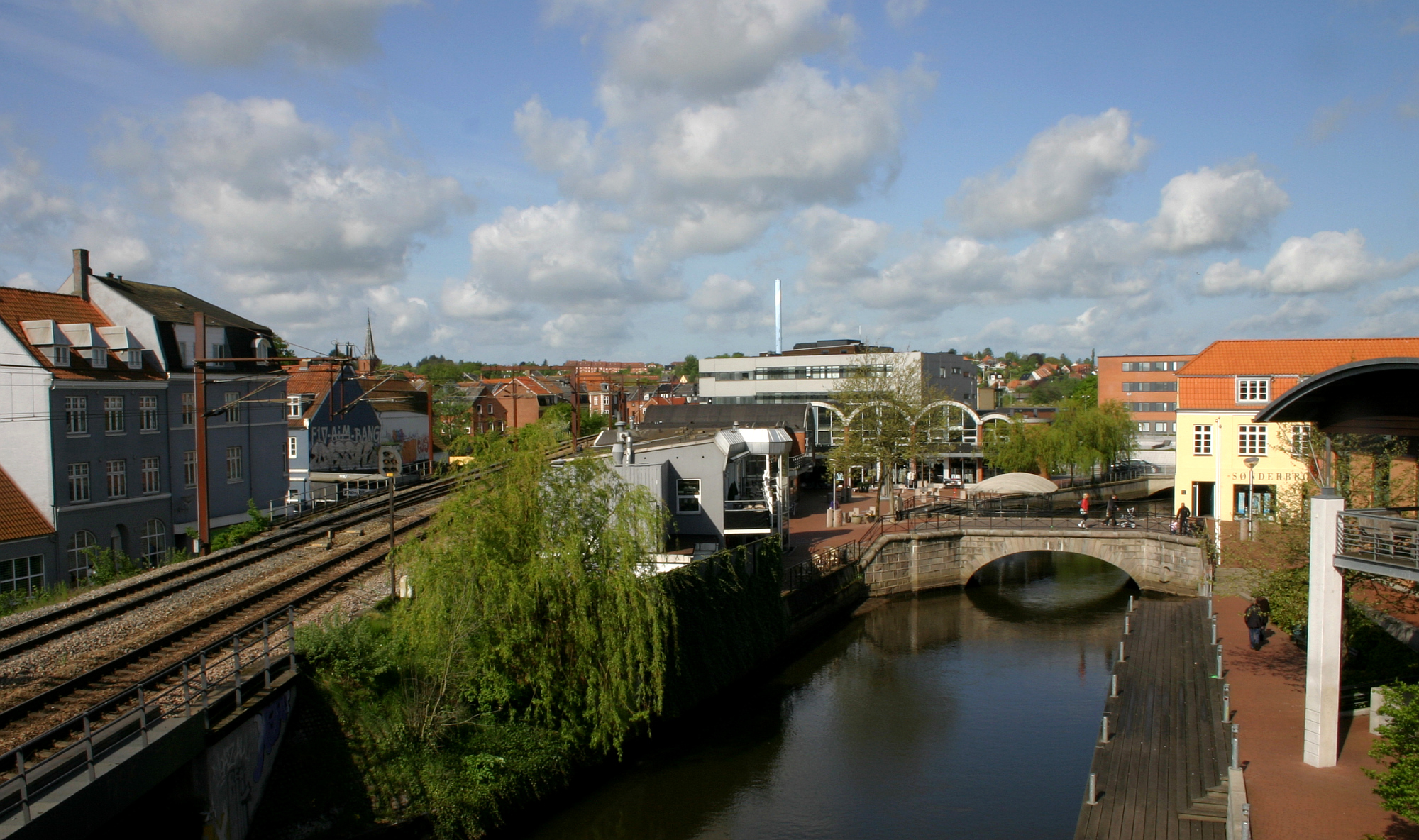 Soenderbro bridge and the stream through Kolding city.Denmark.